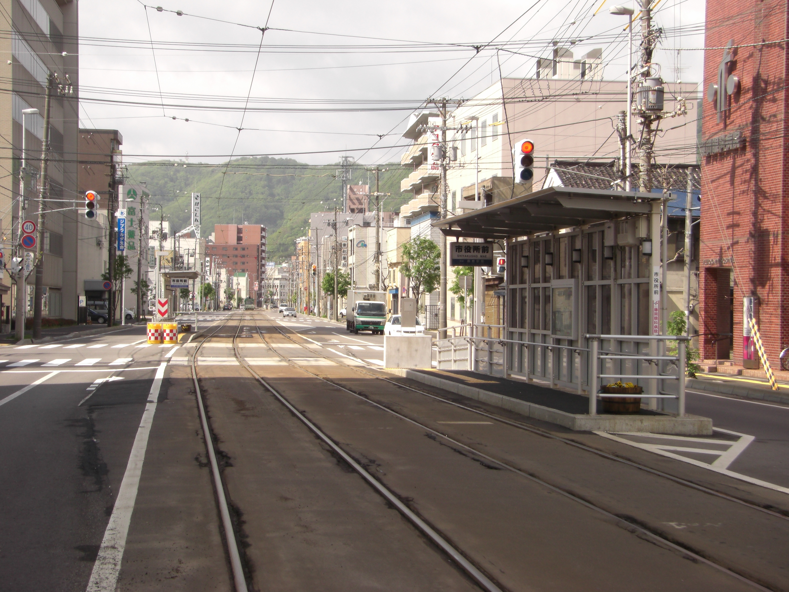 Shiyakusho mae Station in Hakodate, Hokkaido, Japan. It is the station on the Hakodate City Tram Main Line operated by Hakodate Transportation Bureau.